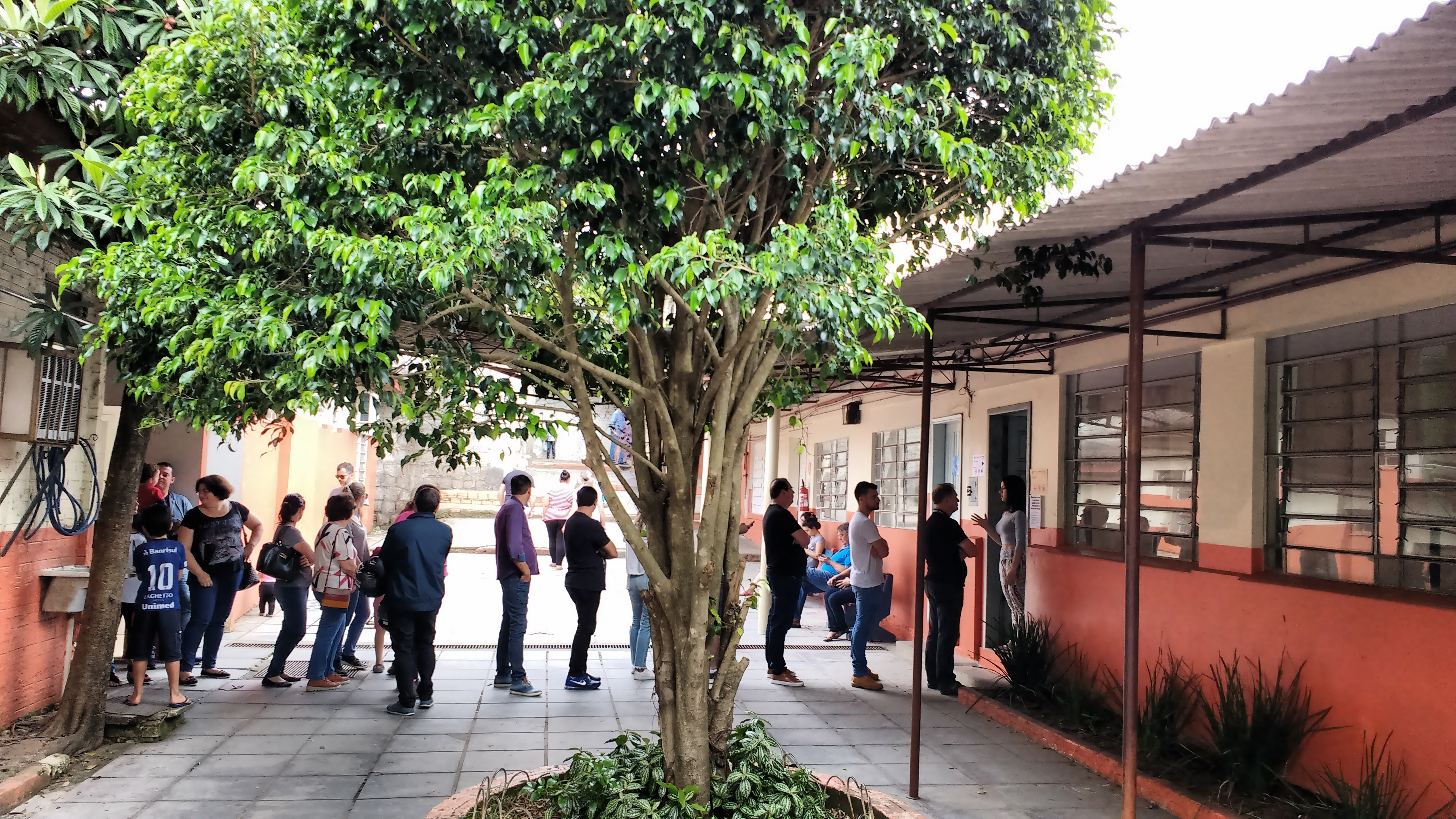 Line to vote in Santa Maria, Rio Grande do Sul, for the first round of the Brazilian general election of 2018.